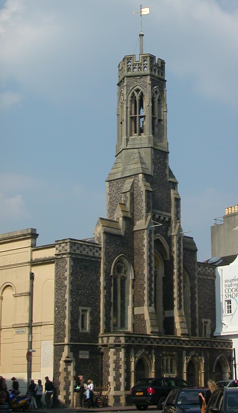 The former Holy Trinity chapel, Ship Street, Brighton, England. Now used, inter alia, as a gallery.